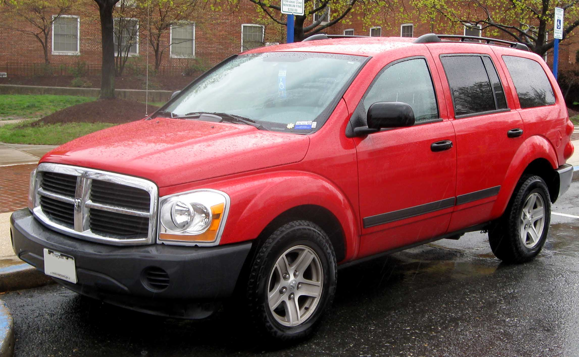 2004-2006 Dodge Durango photographed in College Park, Maryland, USA.